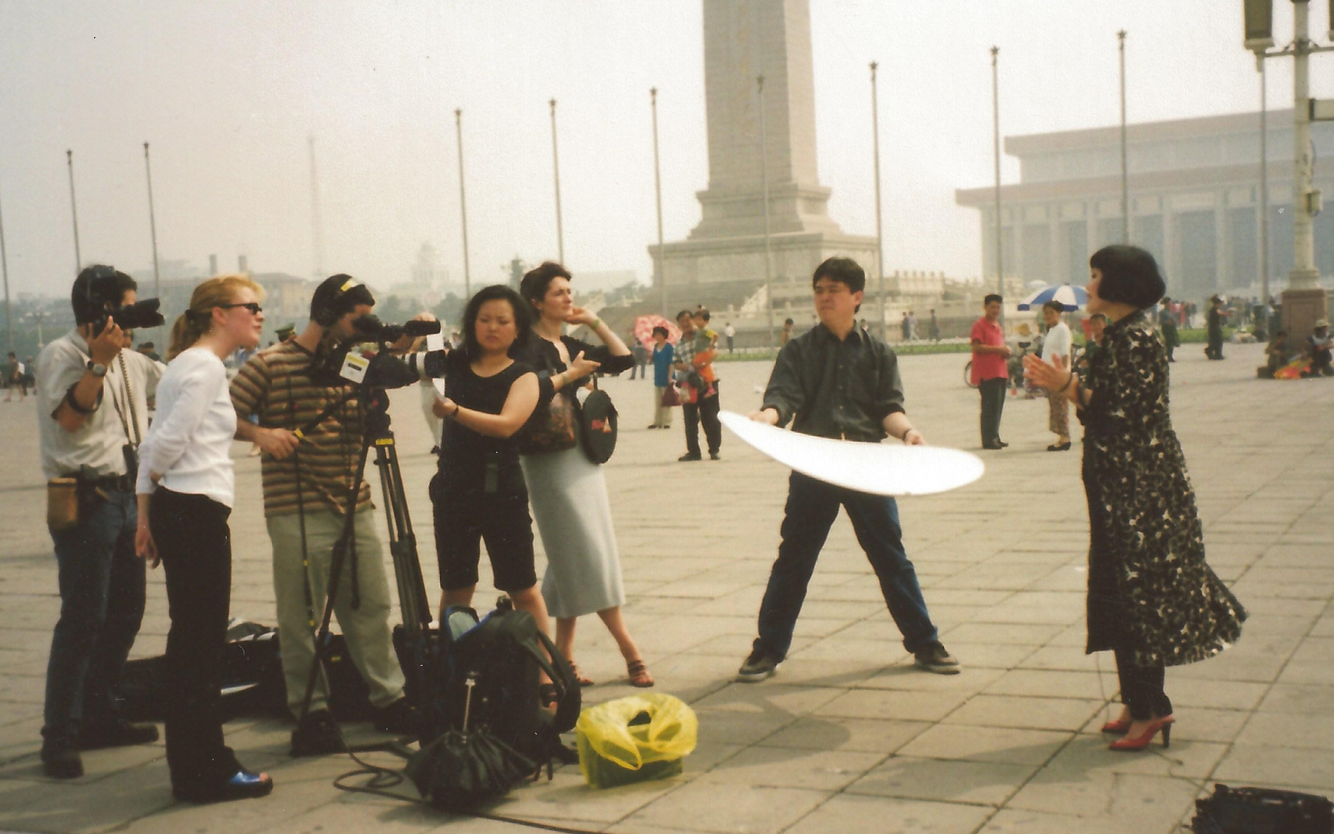 Yue-Sai was filmming One World in Beijing